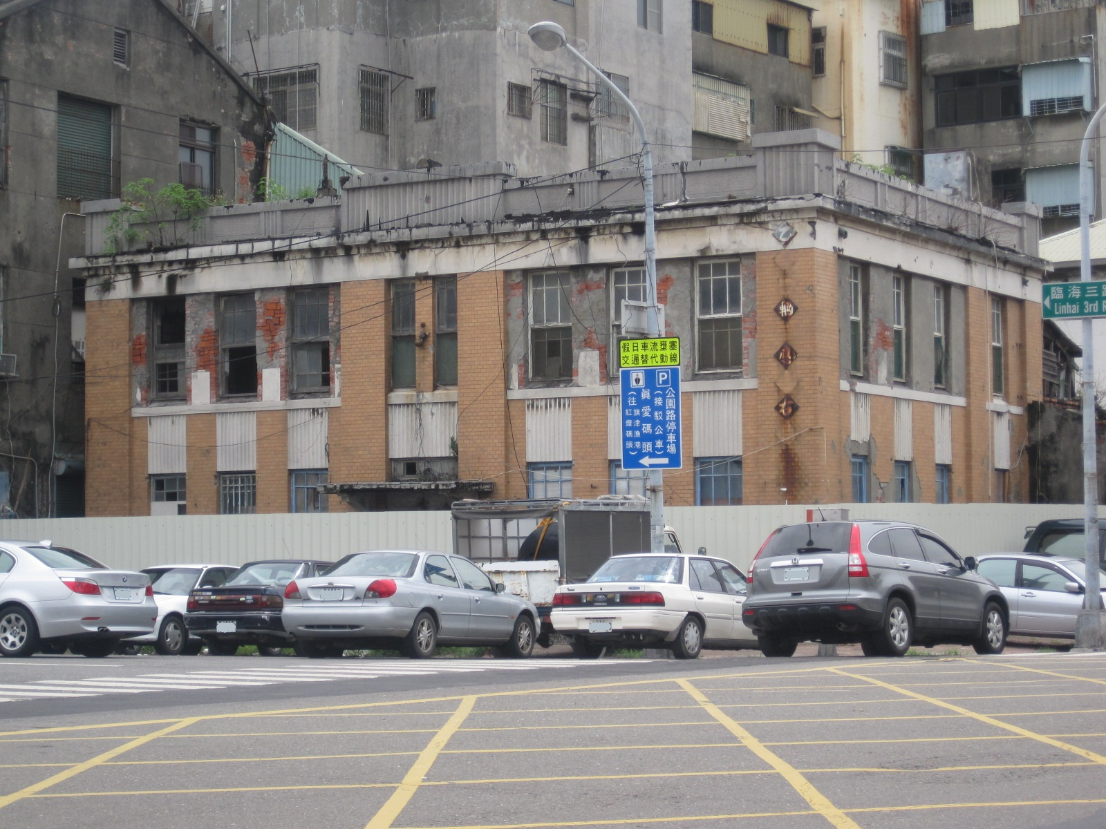 Former Sanhe Bank